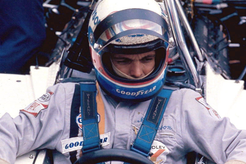 Portrait of the late racing driver Peter Revson. It was taken in August 1973 on the occasion of the Formula 1 race German Grand Prix at Nürburgring.